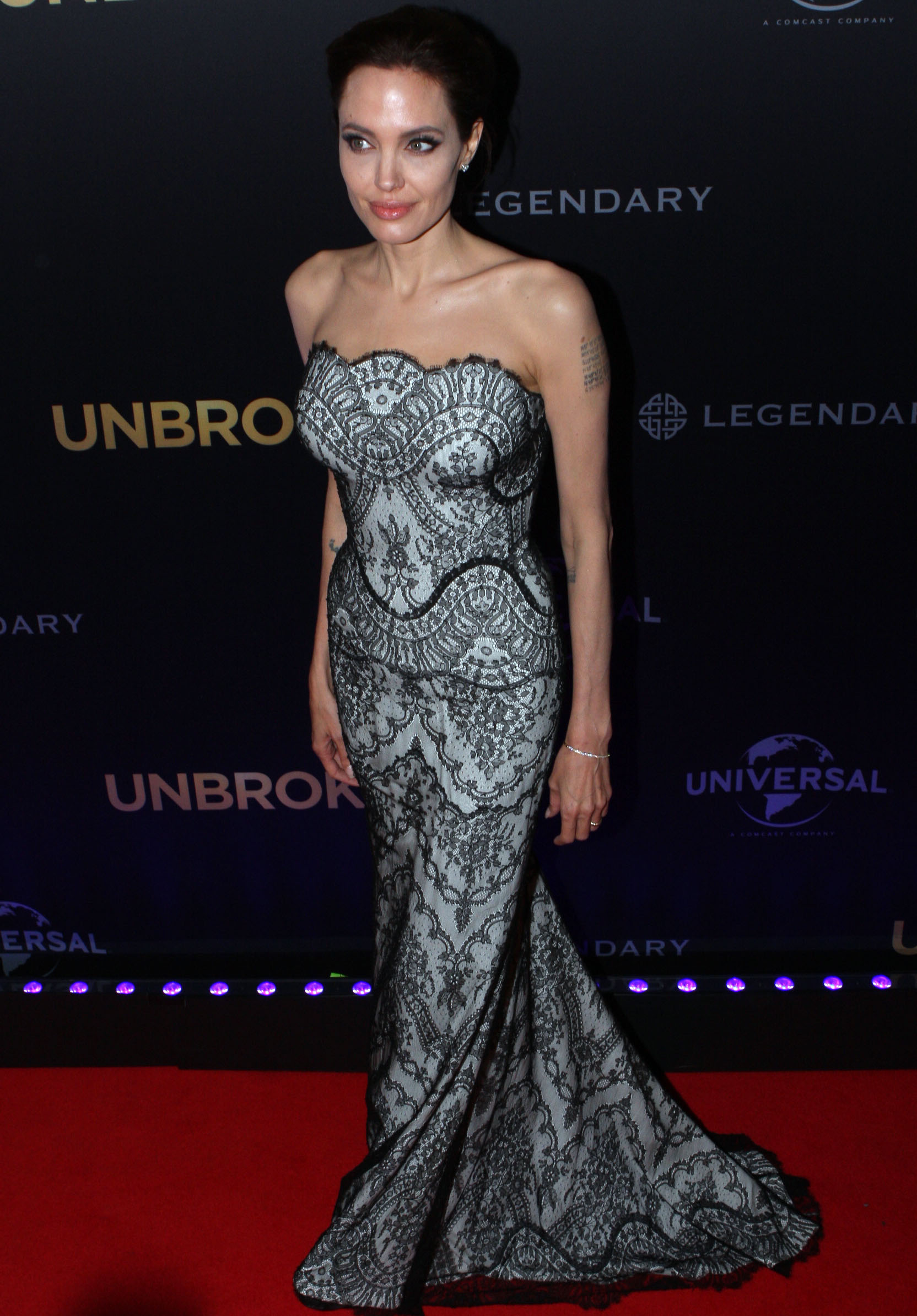 Unbroken World Premiere